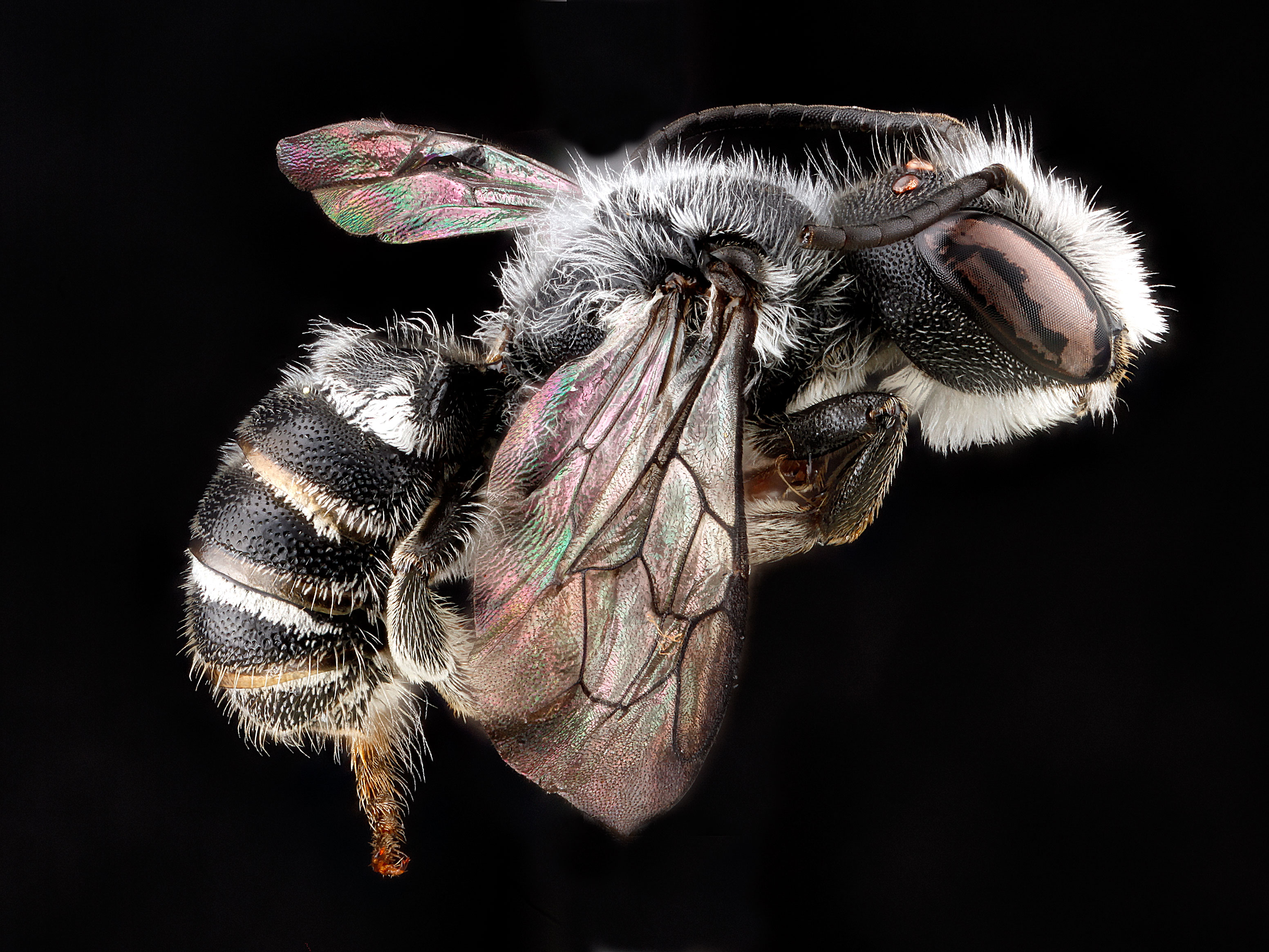 Megachile campanulae, male, Allegany Count, MD, May 2012